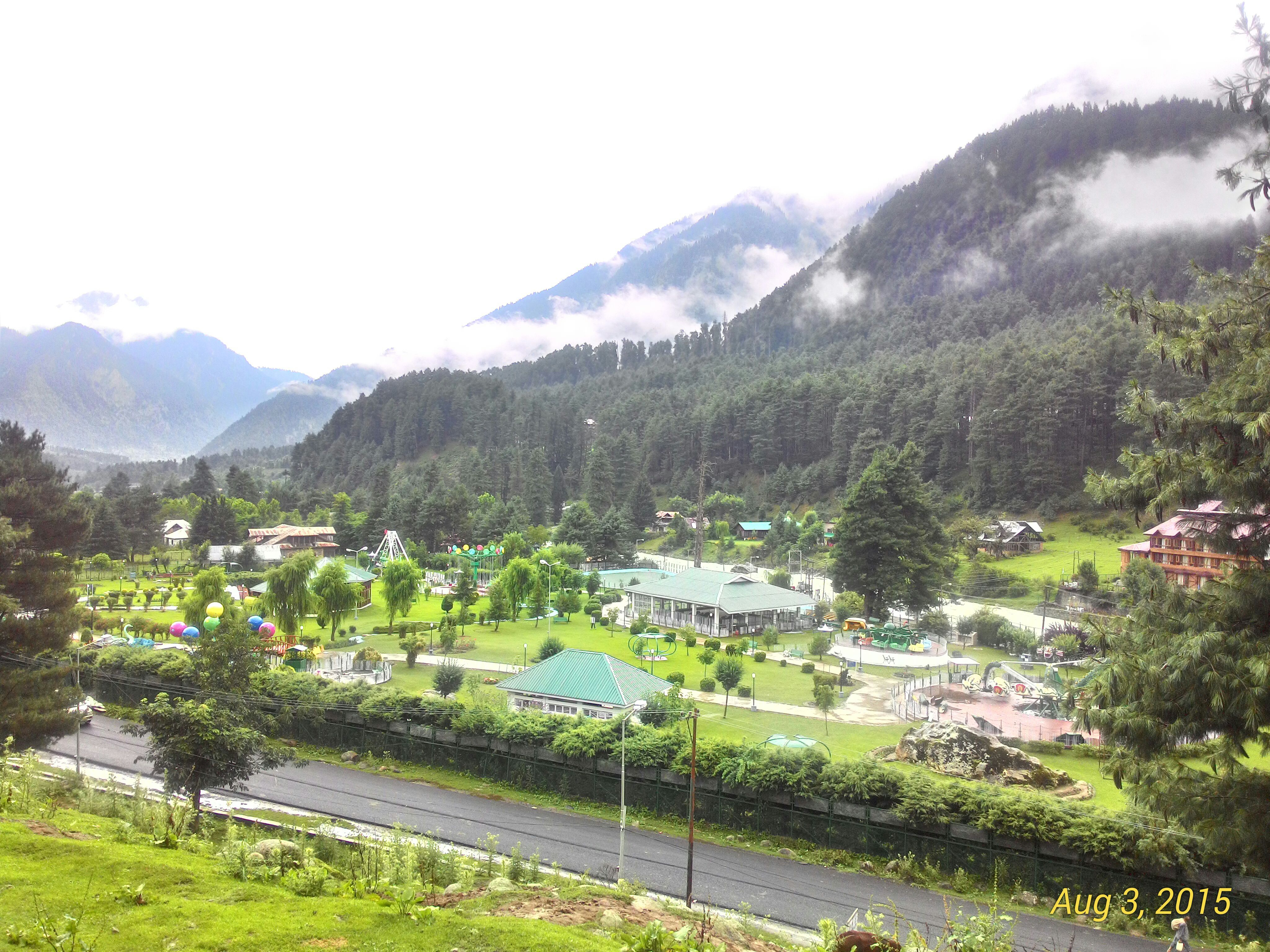 LANDSCAPE BEAUTY OF PAHALGAM , KASHMIR